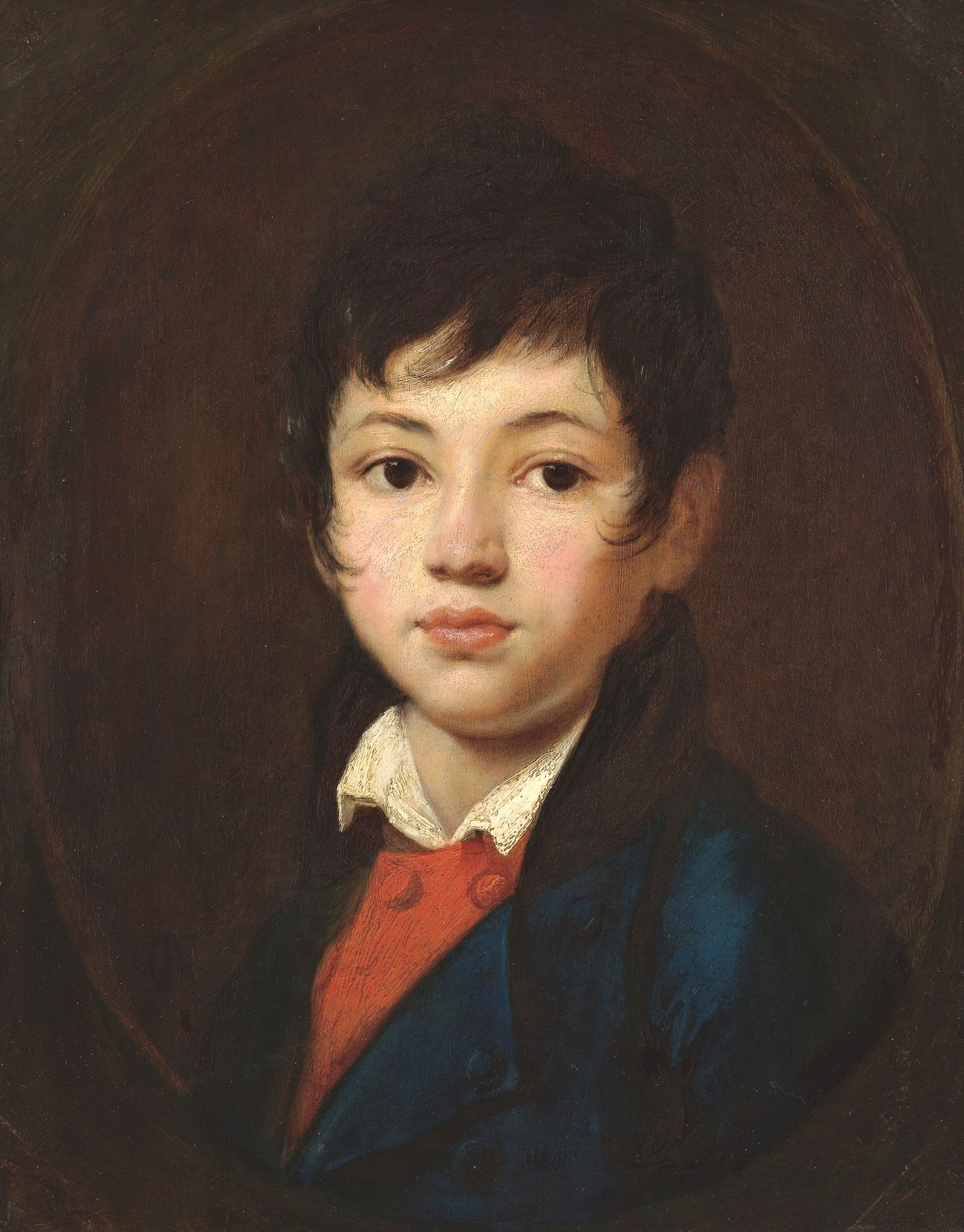 Alexander Aleksandrovich Chelishchev (1797–1881) participated in the War of 1812 and in the Foreign Campaign of the Russian Army (1813–1814). He was a member of the Union of Welfare and the Northern Society, but he took no part in the Decembrist uprising. In 1827 he retired from military service